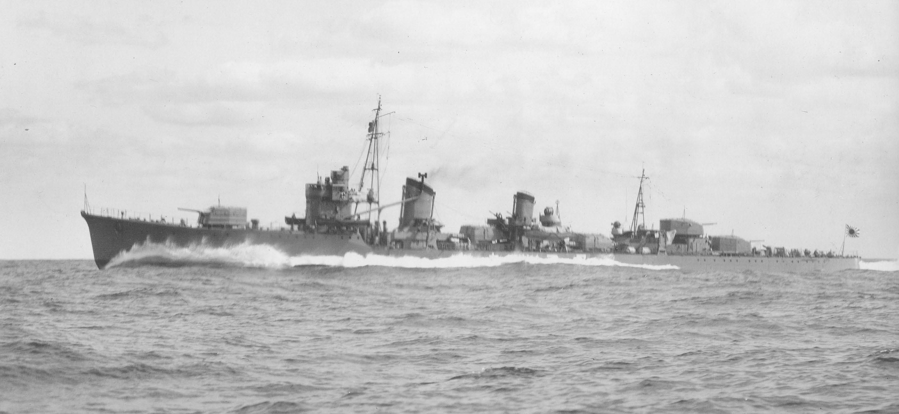 Imperial Japanese Navy destroyer Amatsukaze underway on October 17, 1940. The ship was the second Japanese warship to bear that name.